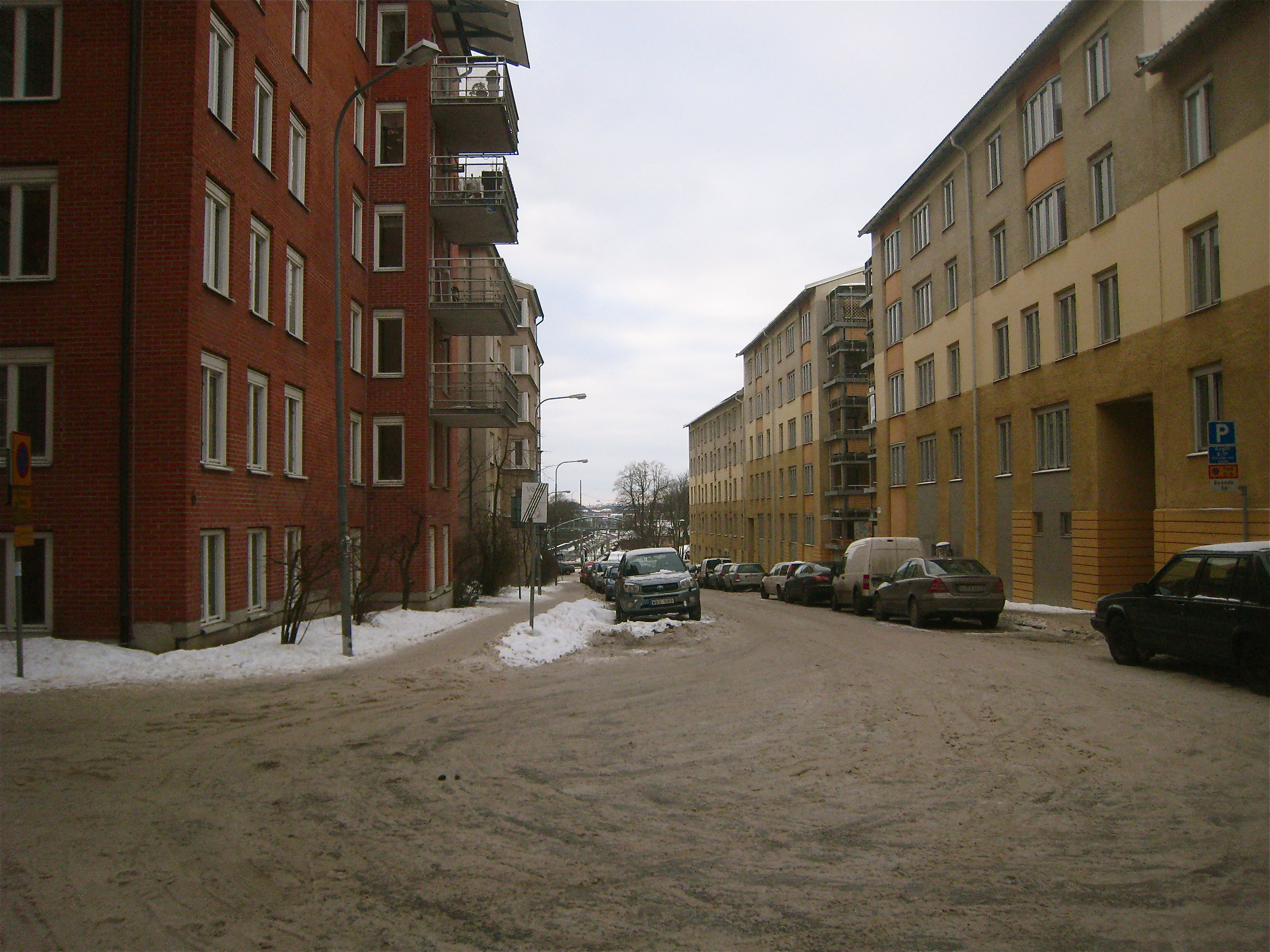 Sköldgatan